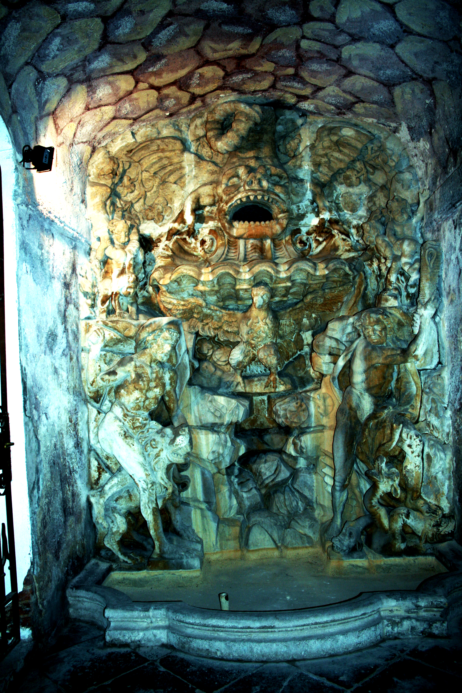 Moment from cellar space of Ploskovice castle in nothern Bohemia